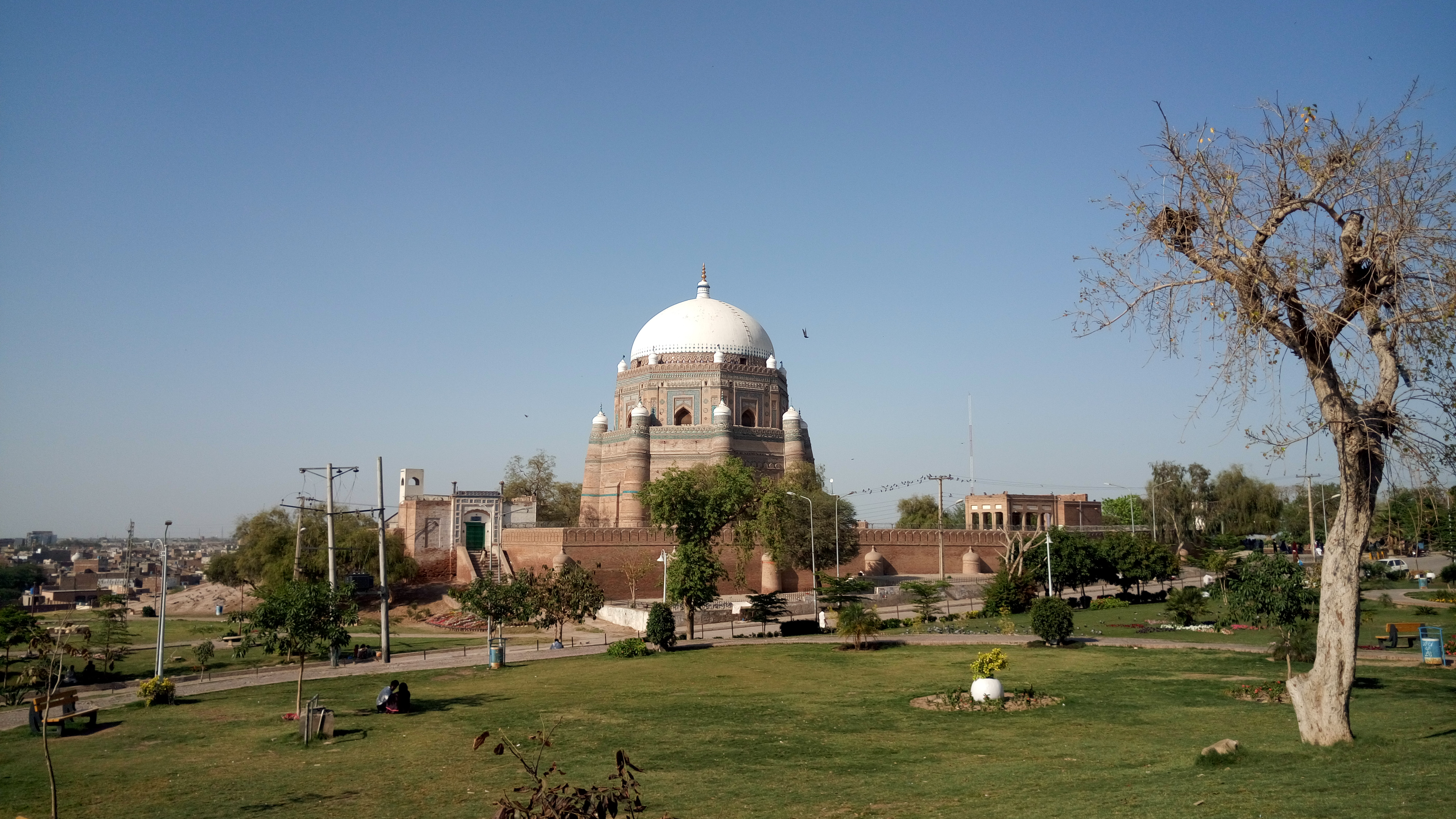 Tomb of Shah Rukn-e-Alam This is a photo of a monument in Pakistan identified as the PB-105